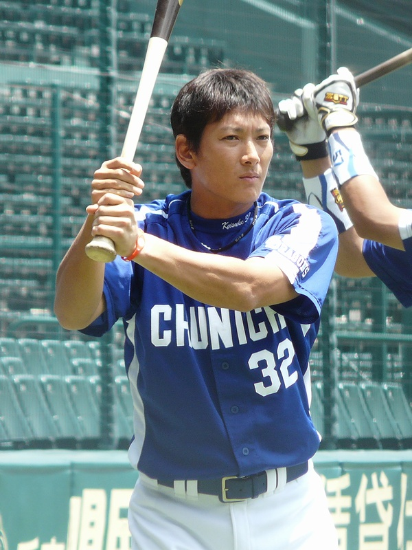 Keisuke Mizuta, infielder of the Chunichi Dragons, at Hanshin Koshien Stadium.